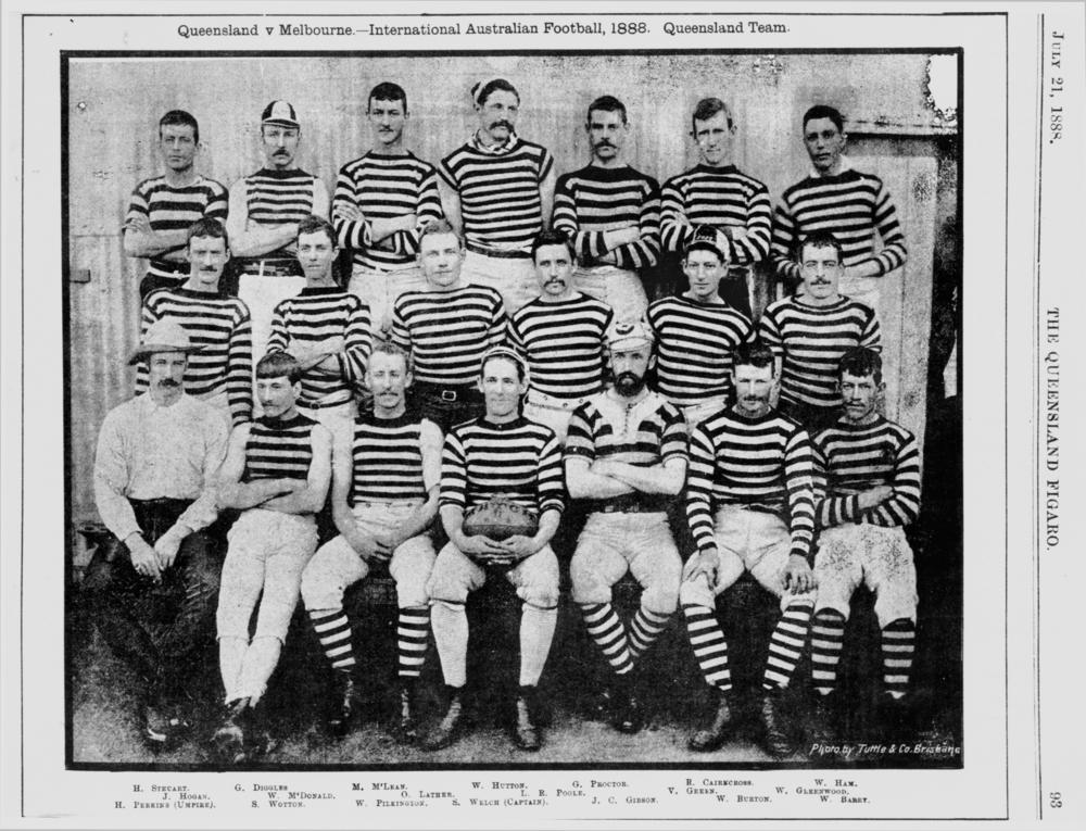 Queensland team who played Melbourne, International Australian Football, 1888 Back row - H. Steuart, G. Diggles, M. McLean, W. Hutton, G. Proctor, R. Cairncross, W. Ham. Second row - H. Hogan, W. McDonald, O. Lather, L. R. Poole, V. Green, W. Greenwood. Front row - H. Perkins (Umpire), S. wotton, W. Pilkinston, S. Welch (Captain), J. C. Gibson, W. Burton, W. Barry. (Description supplied with photograph.).